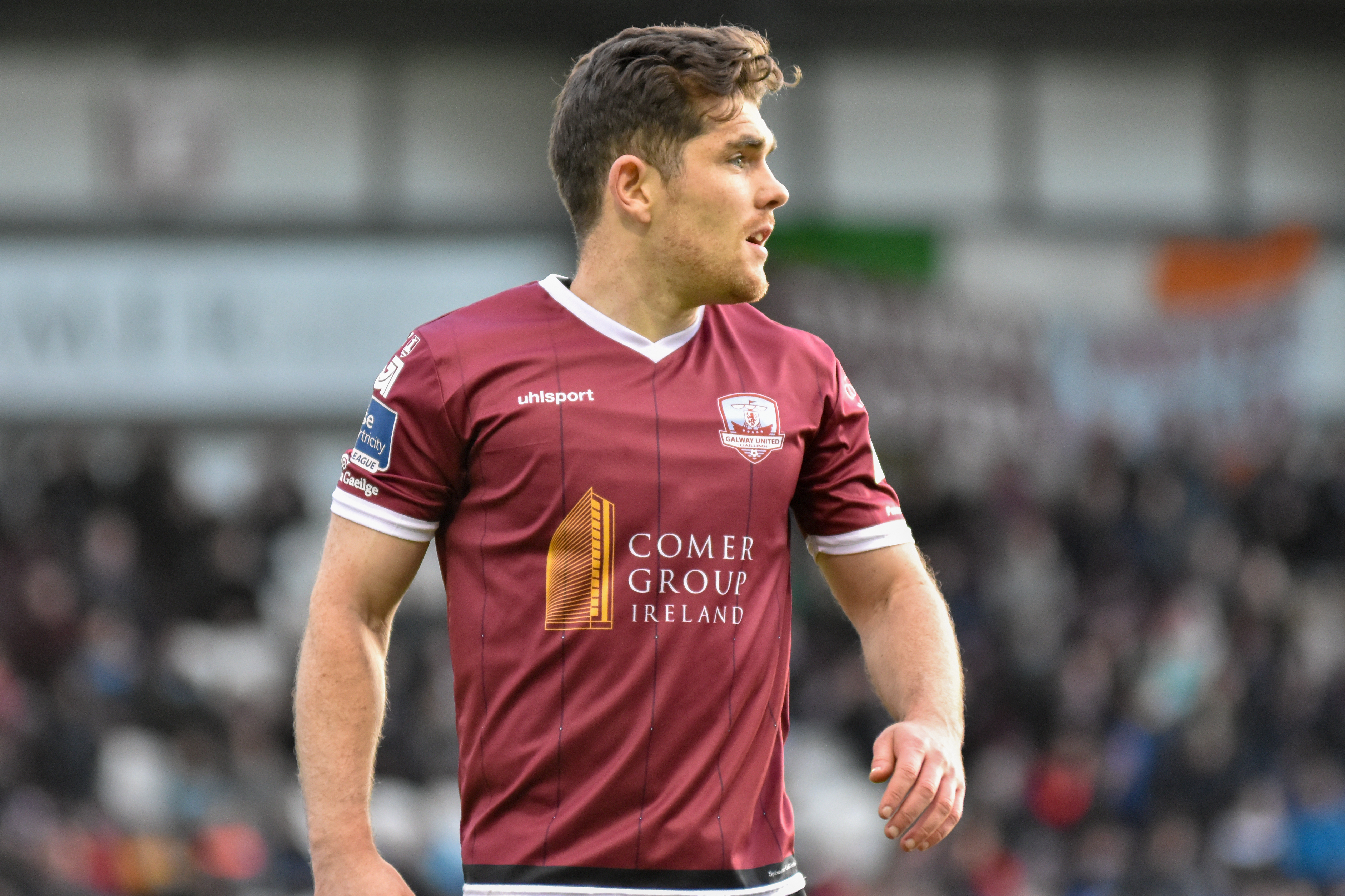 Ronan Murray in action for Galway United in the 2017 League of Ireland